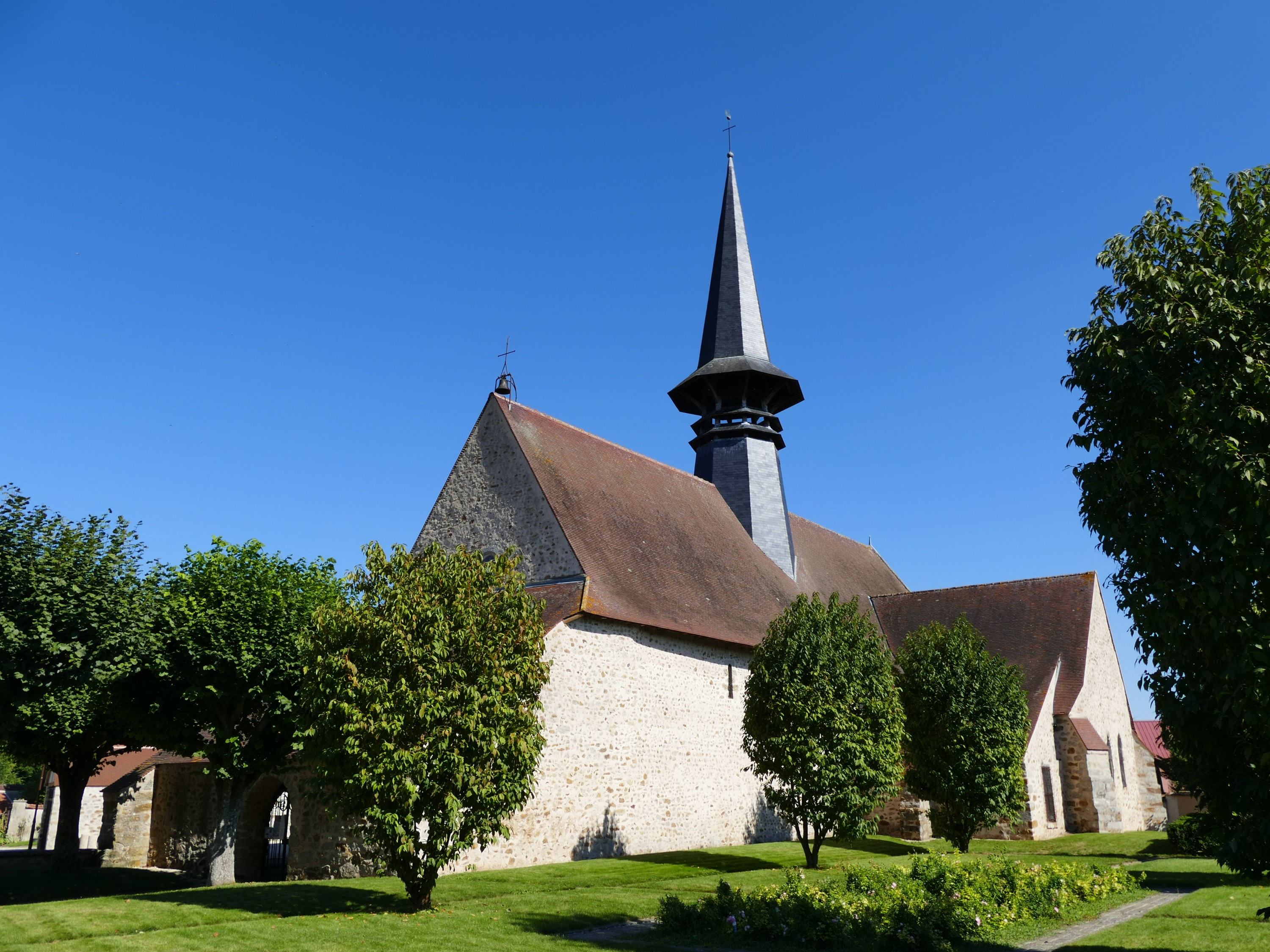 Saint-Aubin's church in Saint-Aubin (Aube, Champagne-Ardenne, France).